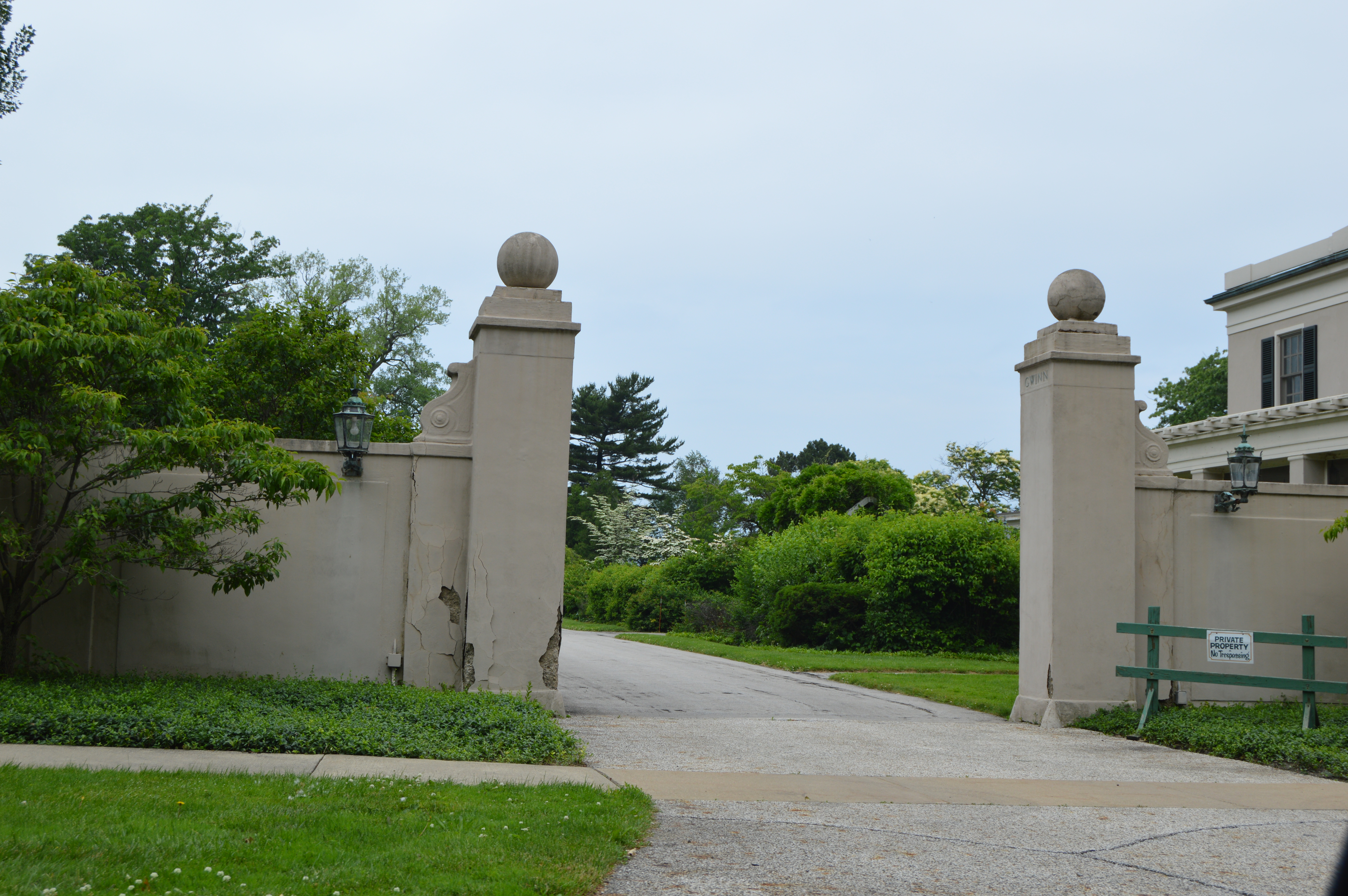 Gateway to the Gwinn Estate, located at 12407 Lakeshore Boulevard in Bratenahl, Ohio, United States. The estate is listed on the National Register of Historic Places.